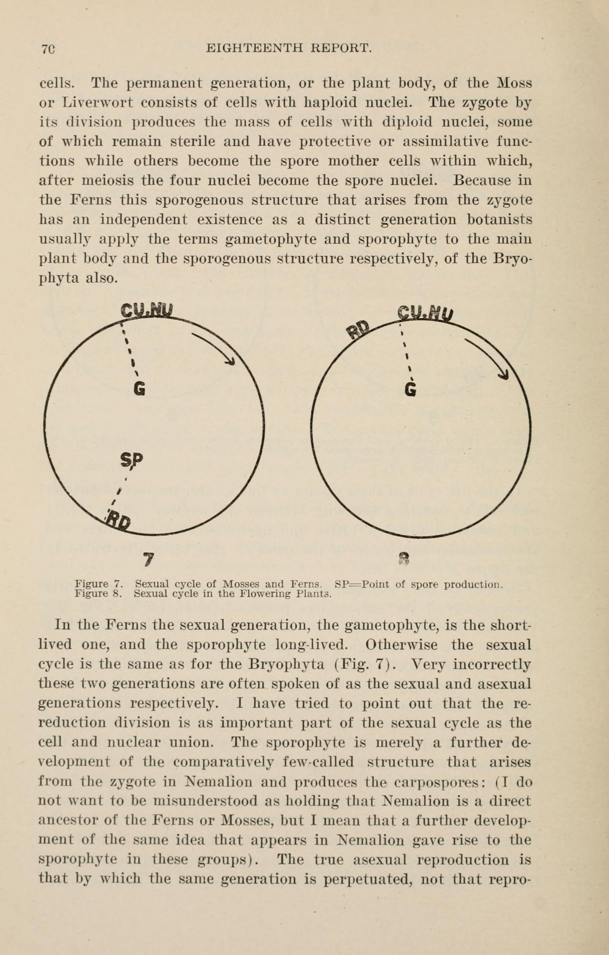 Annual report of the Michigan Academy of Science.